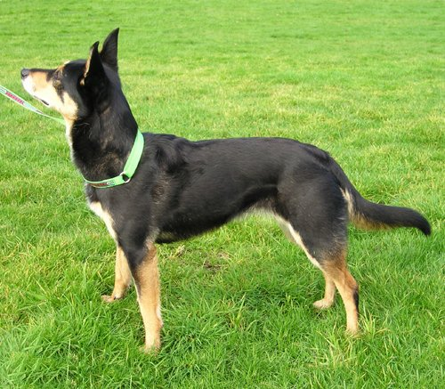 Australian Kelpie (black & tan) "Tika" Taken Feb 22,2004 at the SMART/USDAA dog agility competition in Salinas, CA. Photo by Ellen Levy Finch (Elf).